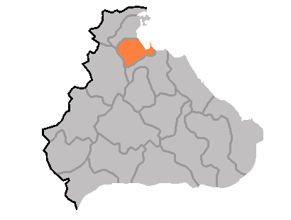 Locator map of Wonsan city, in Gangwon Province, northern North Korea.